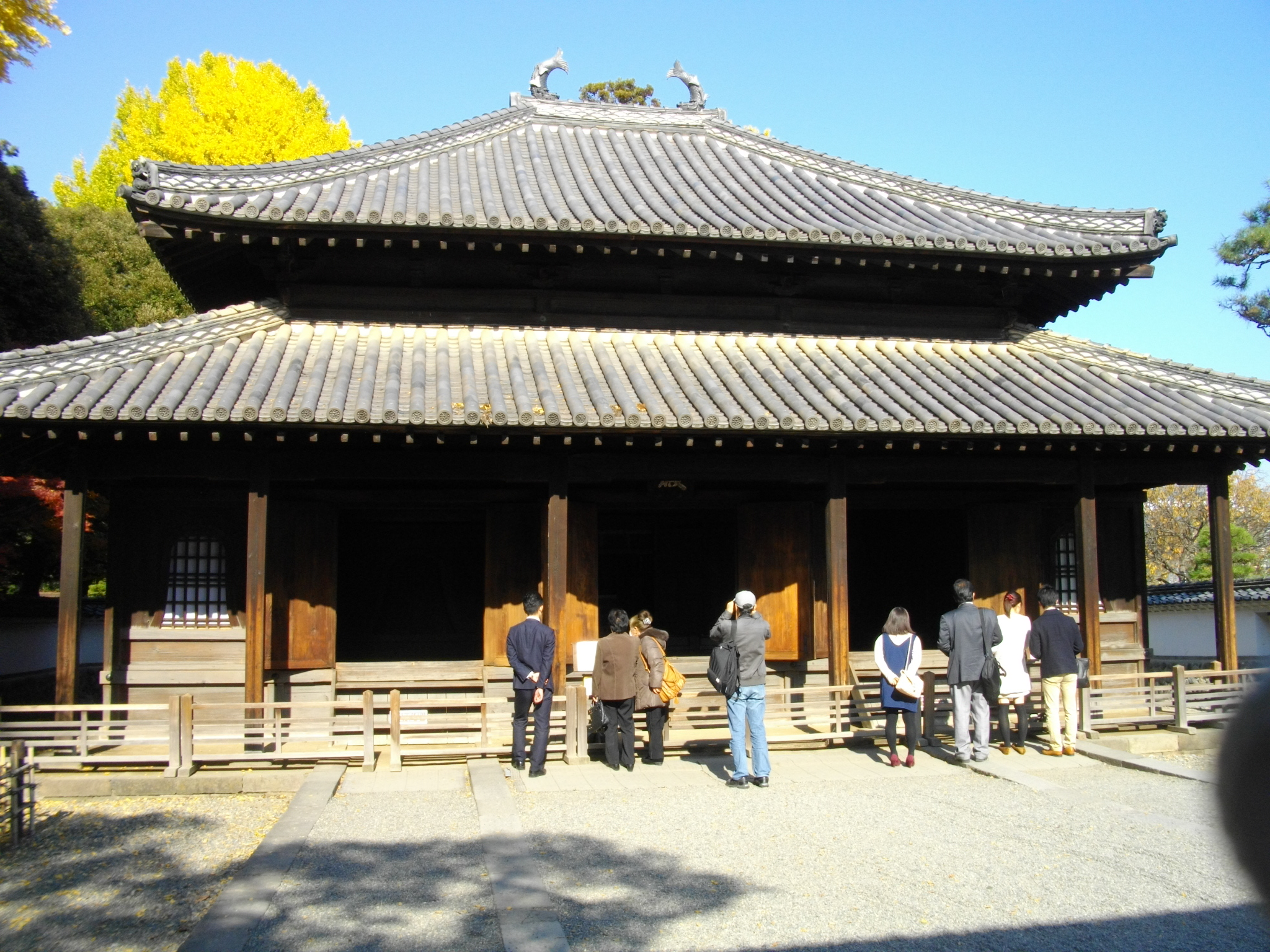 Ashikaga Gakko Koshibyo